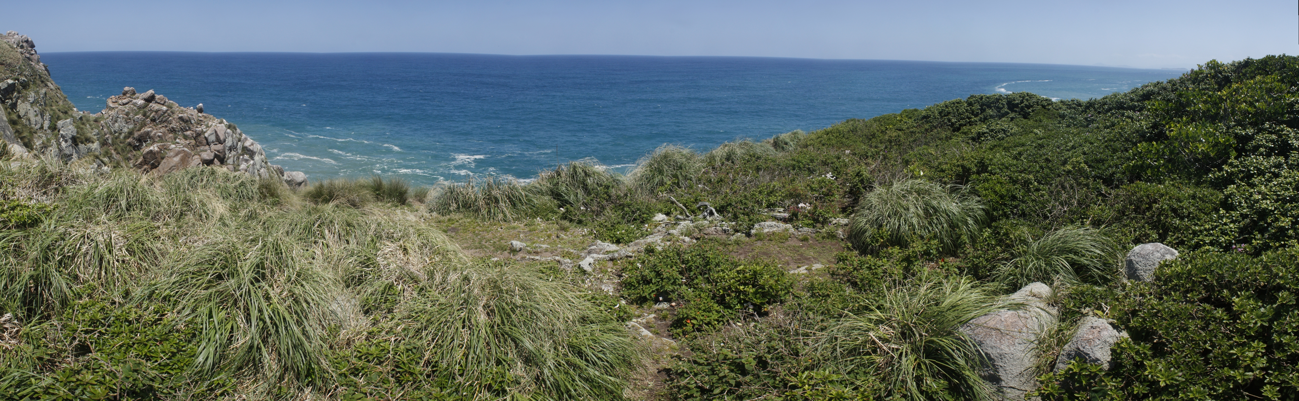 Islands of Moleques do Sul. An small archipelago in southern Brazil, in Santa Catarina state. Part of two protected areas, the 'Parque Estadual da Serra do Tabuleiro' and the protected are named as 'APA da Baleia Franca'.